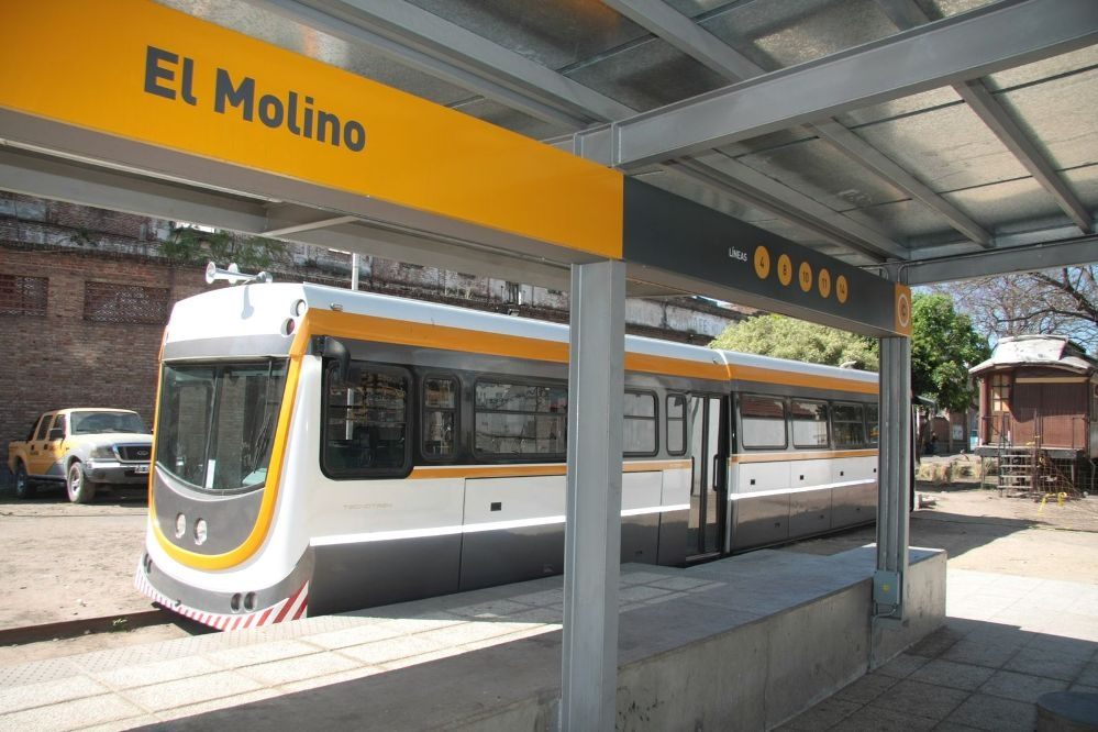 Santa Fe Urban train.